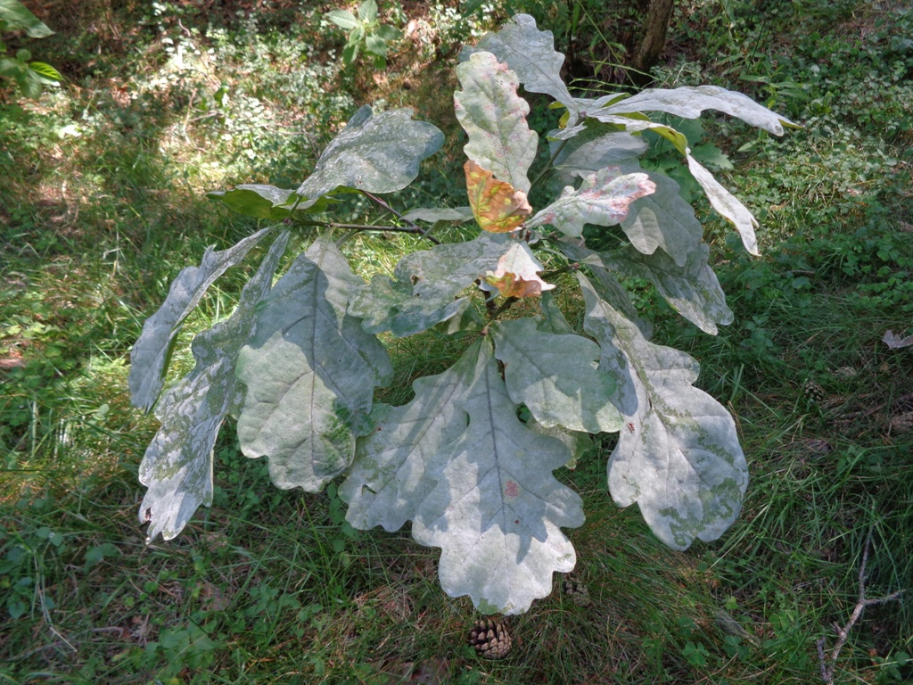 Erysiphe alphitoides. Found in Rīga town, Latvia